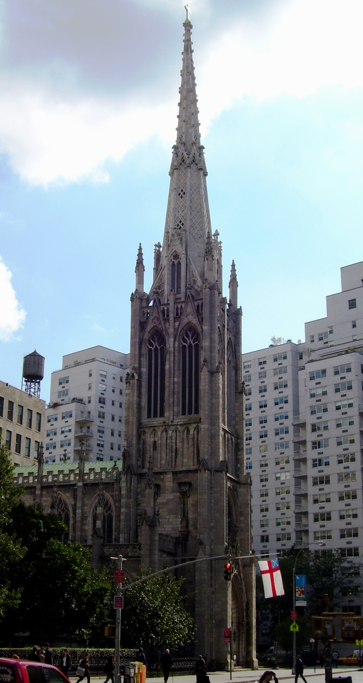 Grace Church (Episcopal) at Broadway and 10th Street in Greenwich Village near Astor Place in lower Manhattan, New York City. A Gothic Revival church designed by James Renwick Jr. (1843-1846), with outbuildings by Edward T. Potter (Chantry, 1878-1879), Heins & La Farge (chancel extension, 1903) and other alterations by William W. Renwick (1910). Front garden by Vaux & Co. (1881) (source:AIA Guide to NYC 4th ed.)